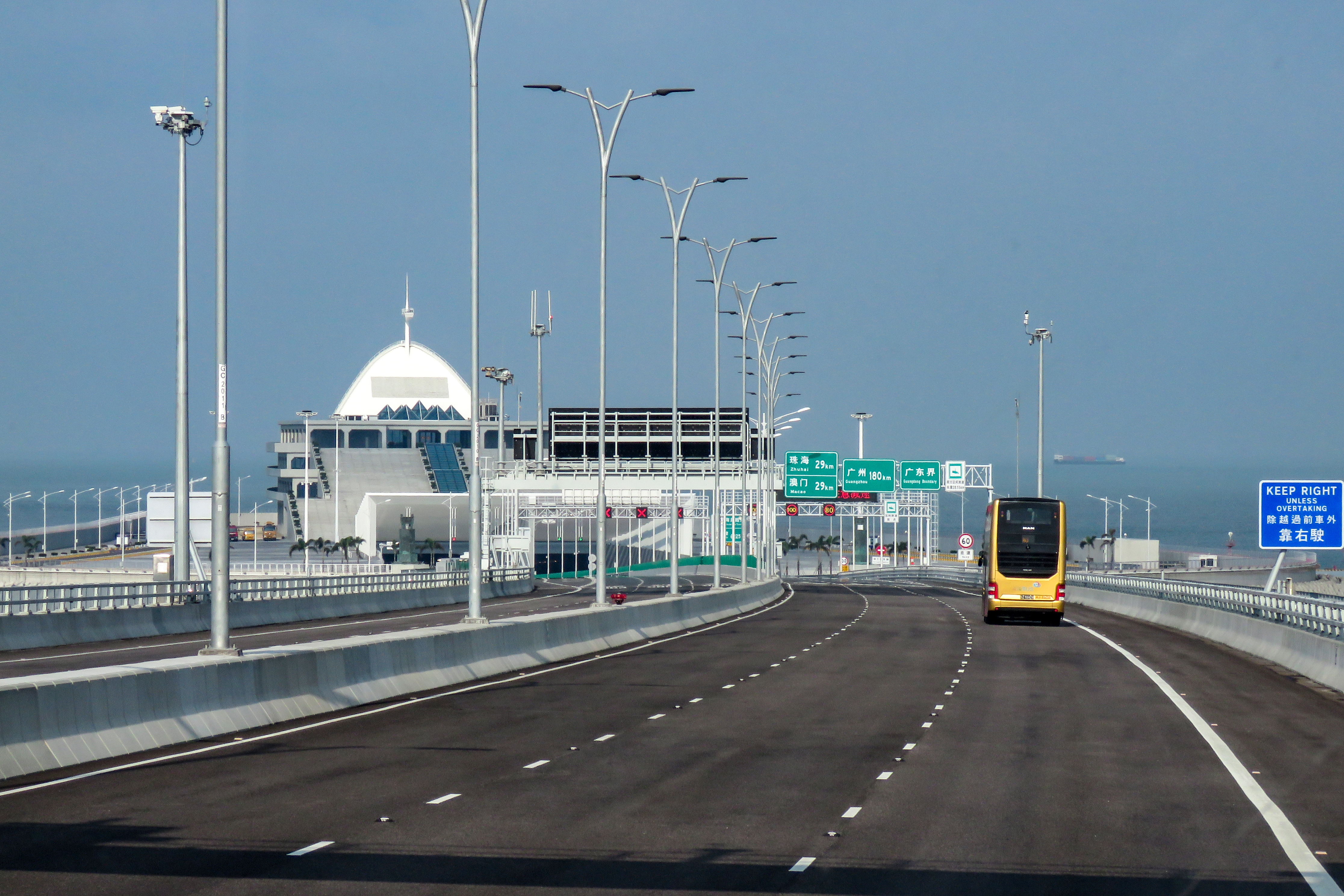 The provincial border is right ahead.